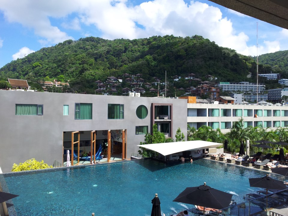 B-Lay Tong Phuket: MGallery Collection